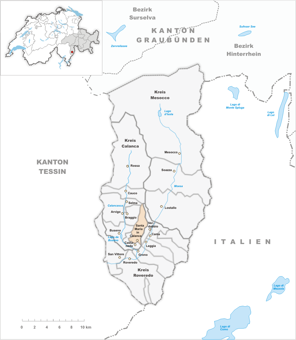 Municipality Santa Maria in Calanca